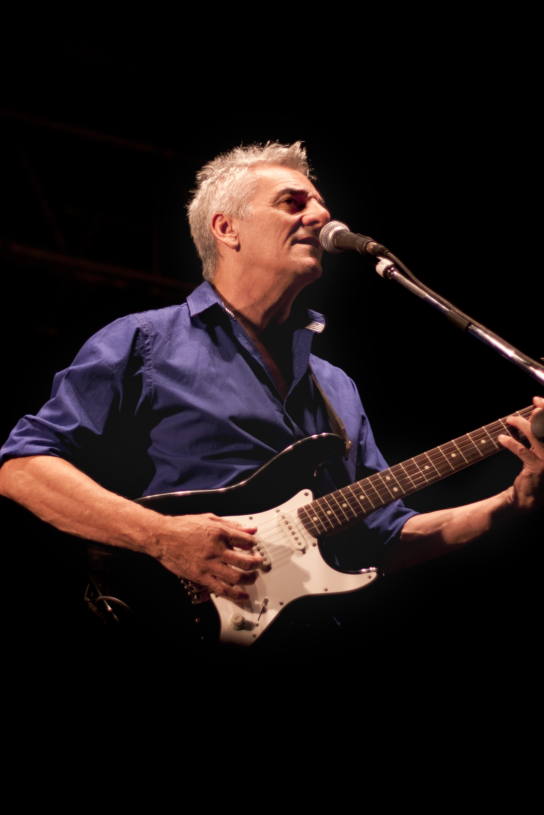 Buenos Aires, 7 de agosto de 2014 - Desde el sábado 16 hasta el 30 agosto del 2014 en la Casa Nacional del Bicentenario, a las 19.00hs se presentarán Laura Ros, Alejandro del Prado y Rubén Goldín. Con entrada libre y gratuita en Riobamba 985.